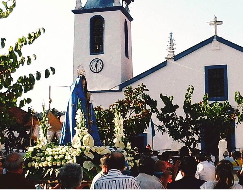 lady os soledade, alguber, portugal